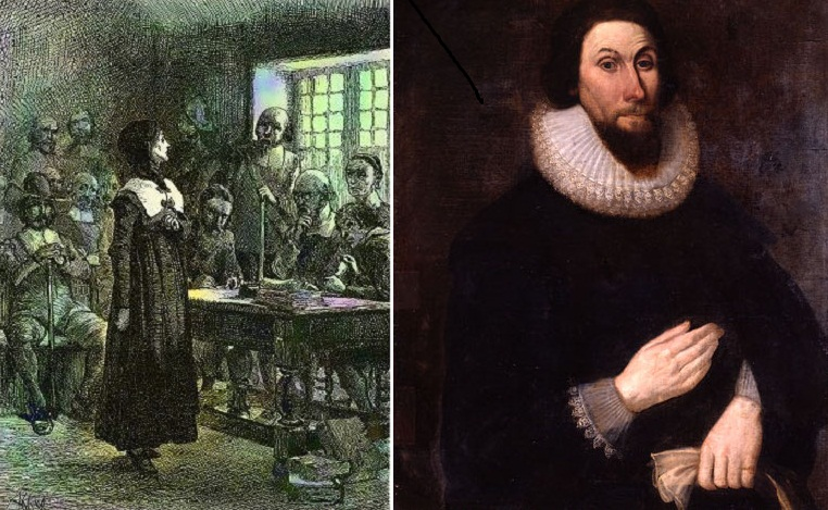 Collage of images of Anne Hutchinson and John Winthrop